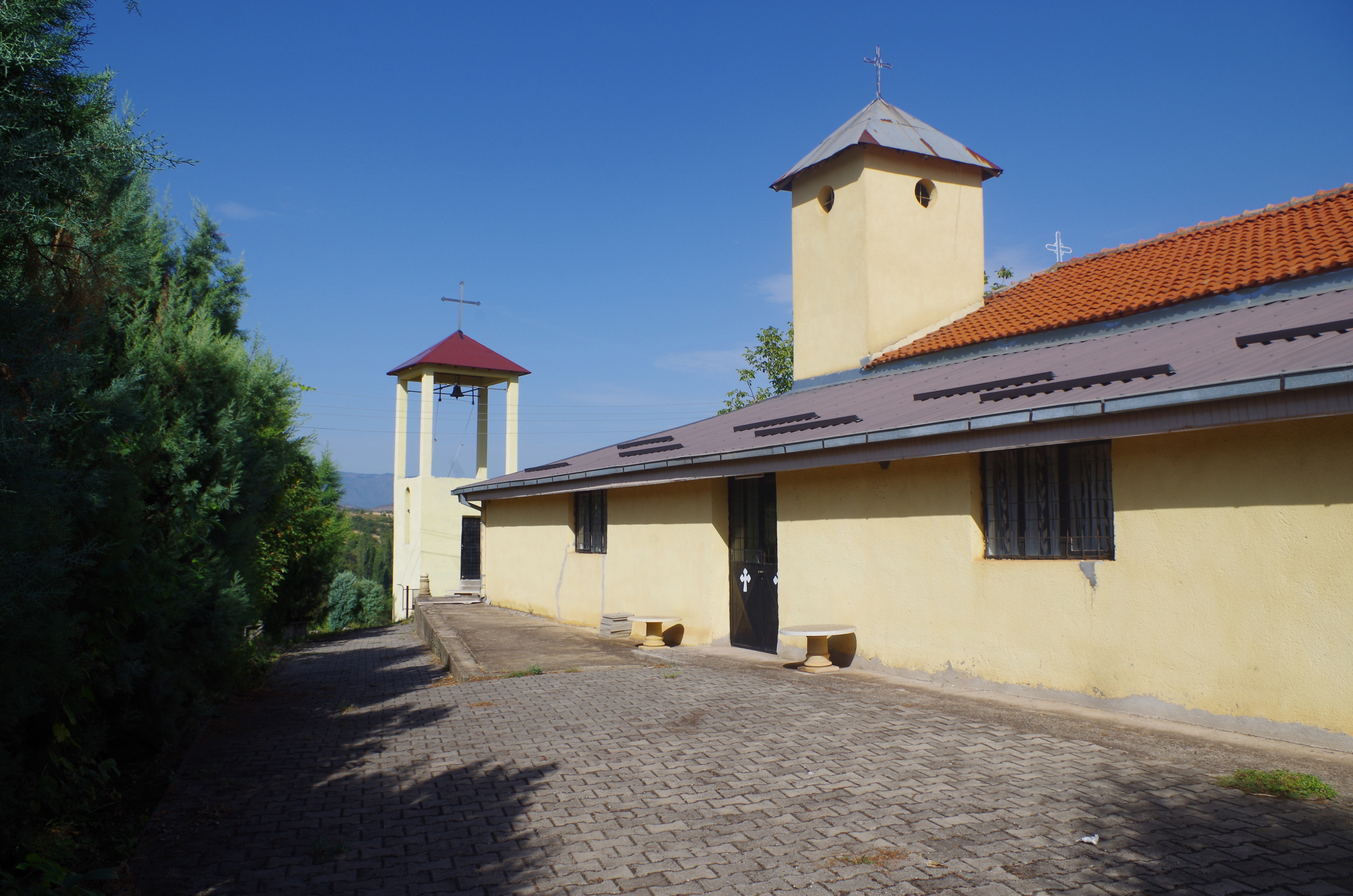 Church of the Theotokos in the village of Vozarci